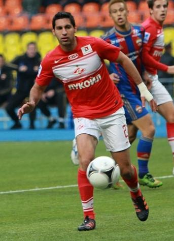 Juan Insaurralde playing for FC Spartak Moscow in 2012.